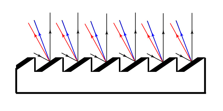 Diagram of a blazed grating. Incident light reflects at the same angle (black lines), but a small portion of the light is refracted as coloured light (red and blue lines). The large number of parallel mirrors means that these small amounts of light can be focused and visualized by tilting the grating. Diagram of a blazed grating. Incident light reflects at the same angle (black lines), but a small portion of the light is refracted as coloured light (red and blue lines). The large number of parallel mirrors means that these small amounts of light can be focused and visualized by tilting the grating.